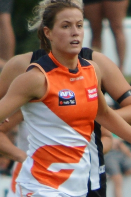 Nicola Barr during the round 3, 2018, AFL Women's match between Collingwood and Greater Western Sydney